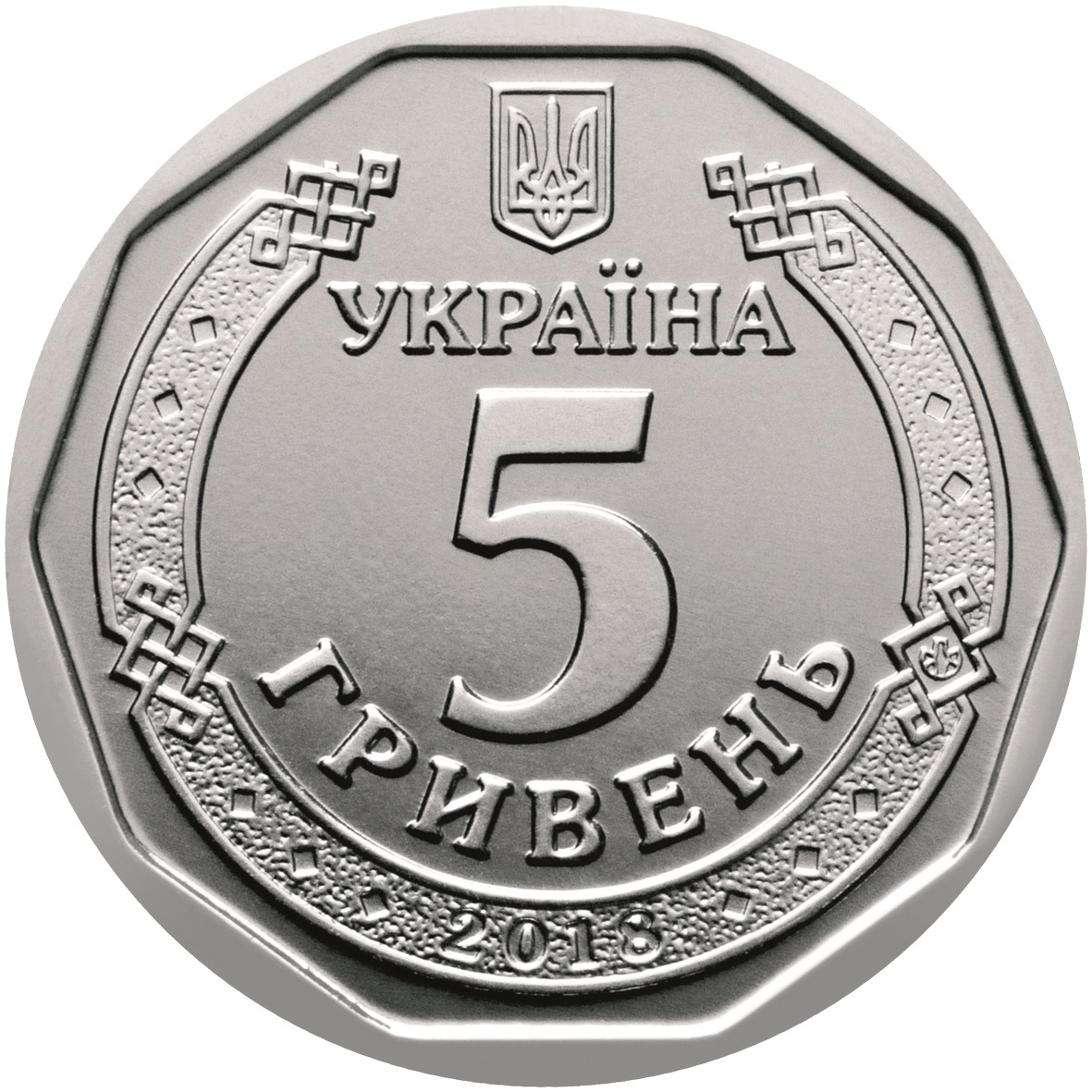 Ukrainian 5 hryvnia coin of 2018 series, averse. Zinc alloy with galvanic coating, 22.1 mm in diameter, weights 5.2 g, reeded edge with plain sectors.